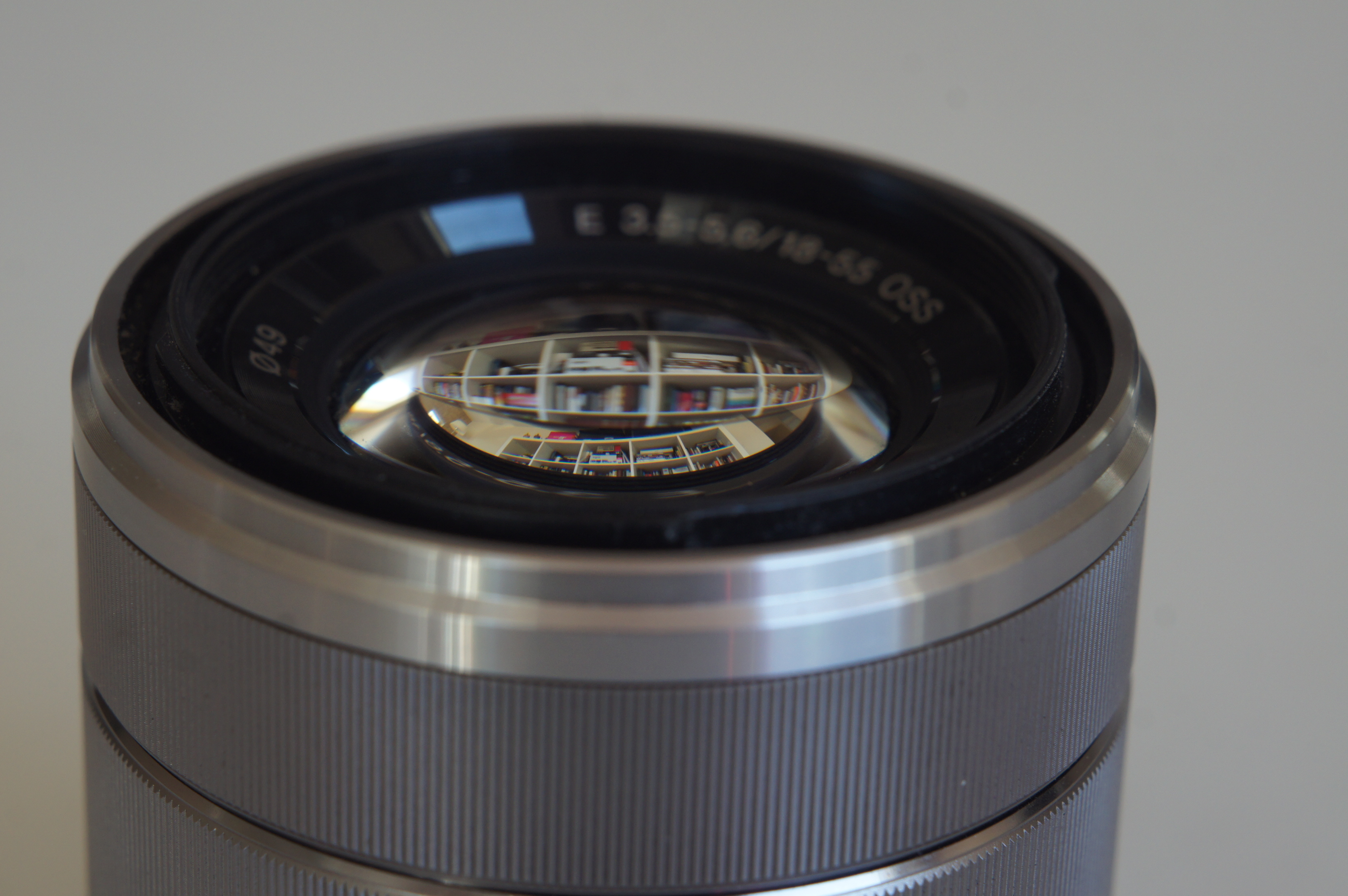 Reflections on a Sony SEL1855 18-55mm lens. 58mm f/2 @ f/8 – with Olympus f=40cm close-up lens